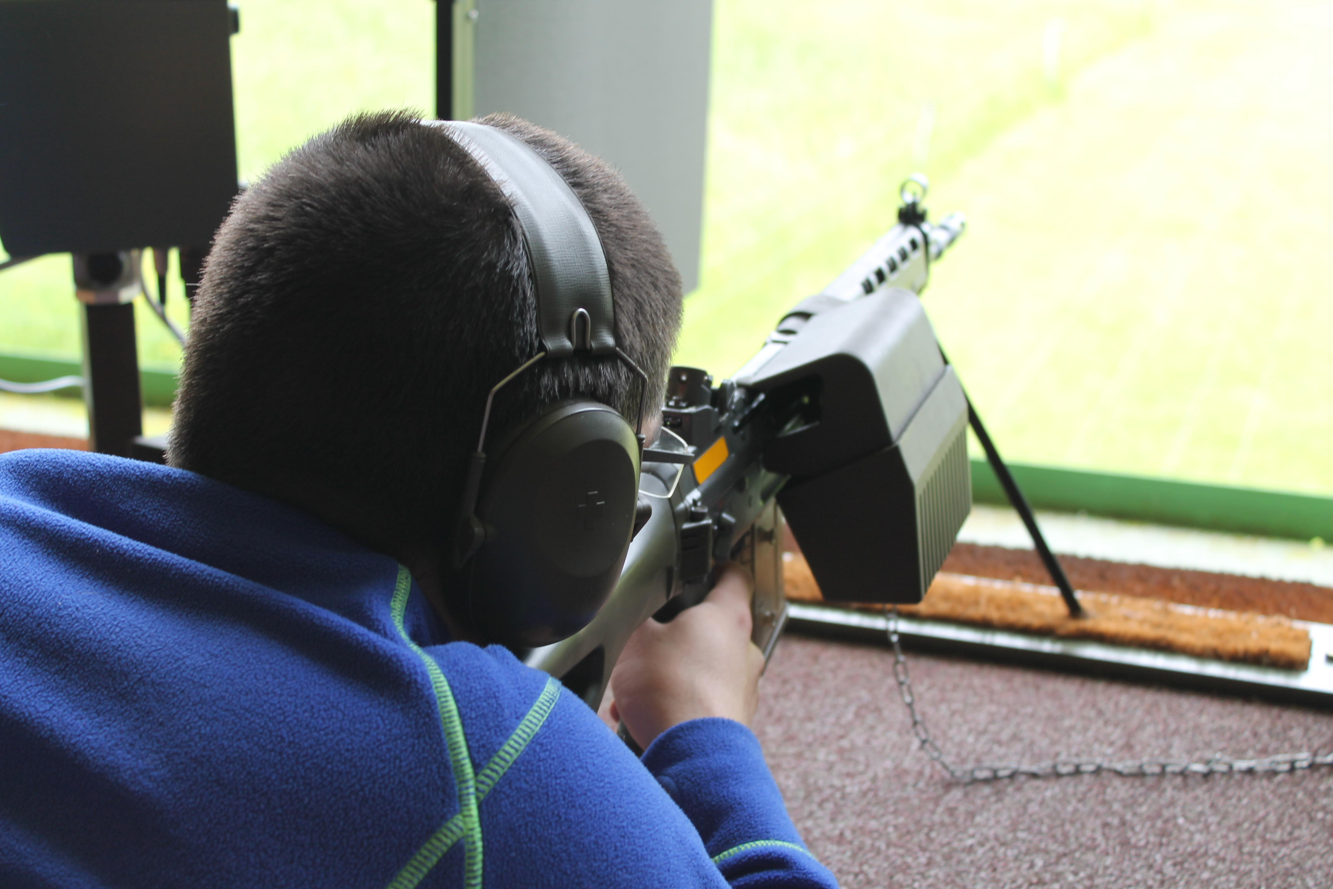 Junior during a pratice using Swiss Army Sturmgewehr 90 (SIG 550)